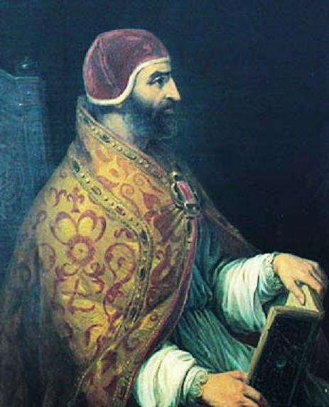 Pope Innocent VI, Avignon, France